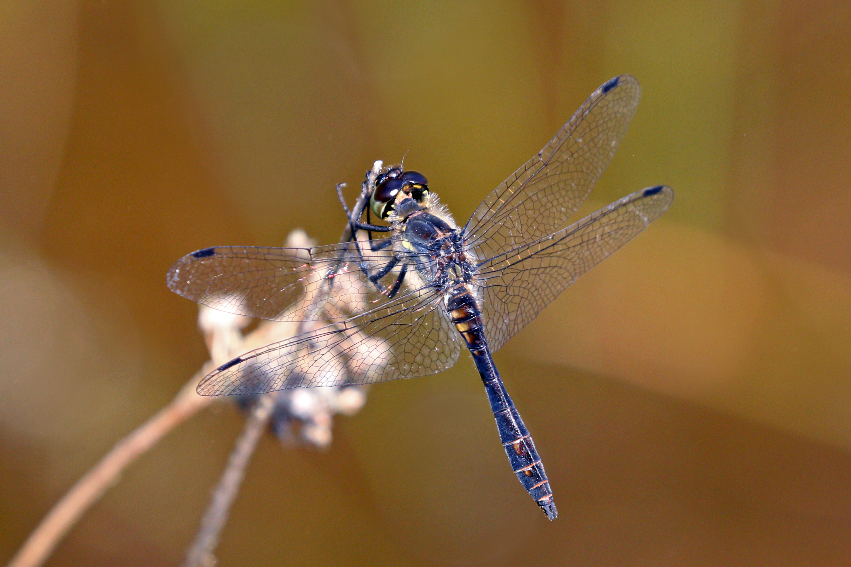 Black darter (Sympetrum danae) male, Warren Heath, Hampshire. Image used (flipped horizontally) on Page 283 of Europe's Dragonflies by Dave Smallshire and Andy Swash (Wild Guides, 2020)